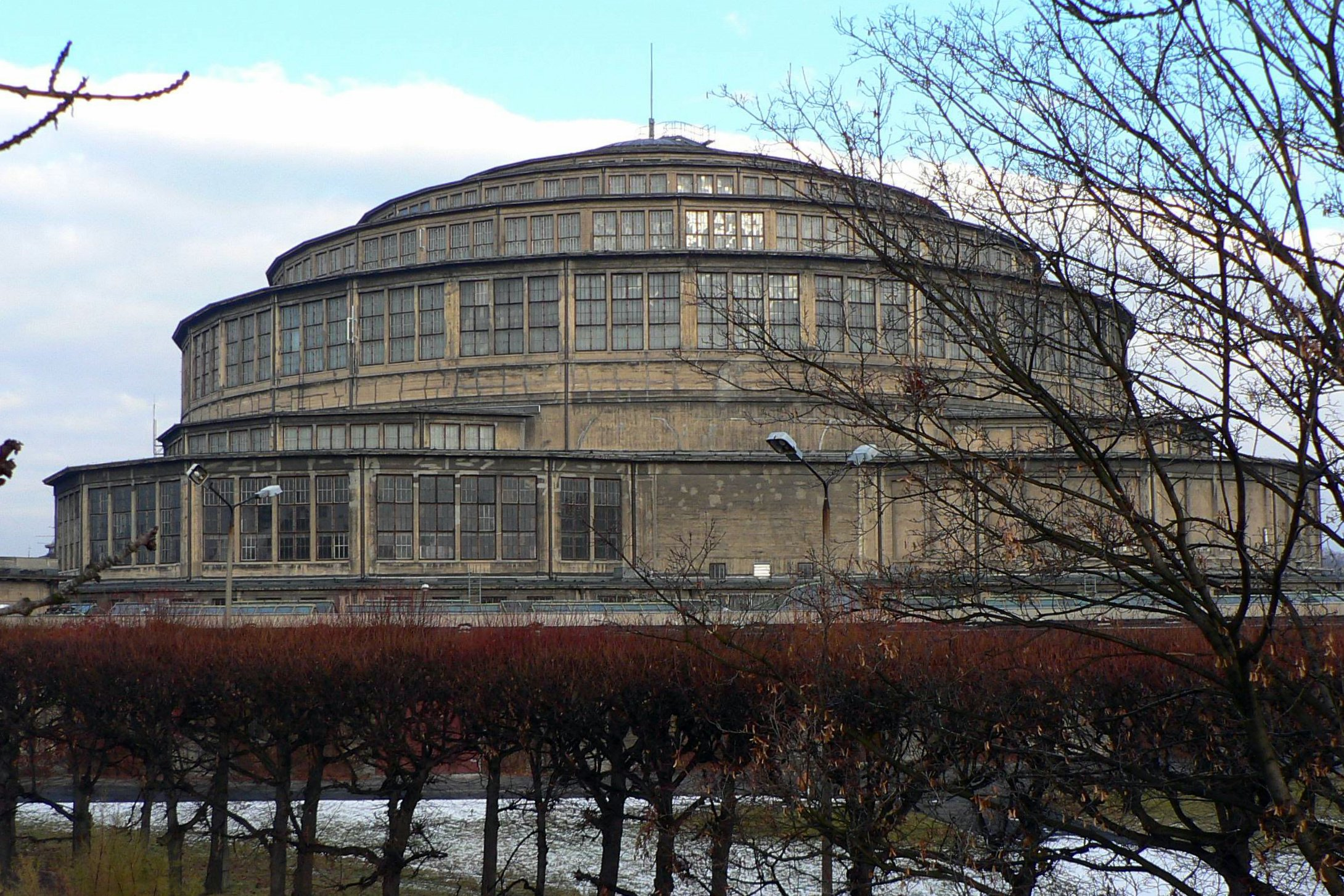 People's Hall in Wrocław, Poland